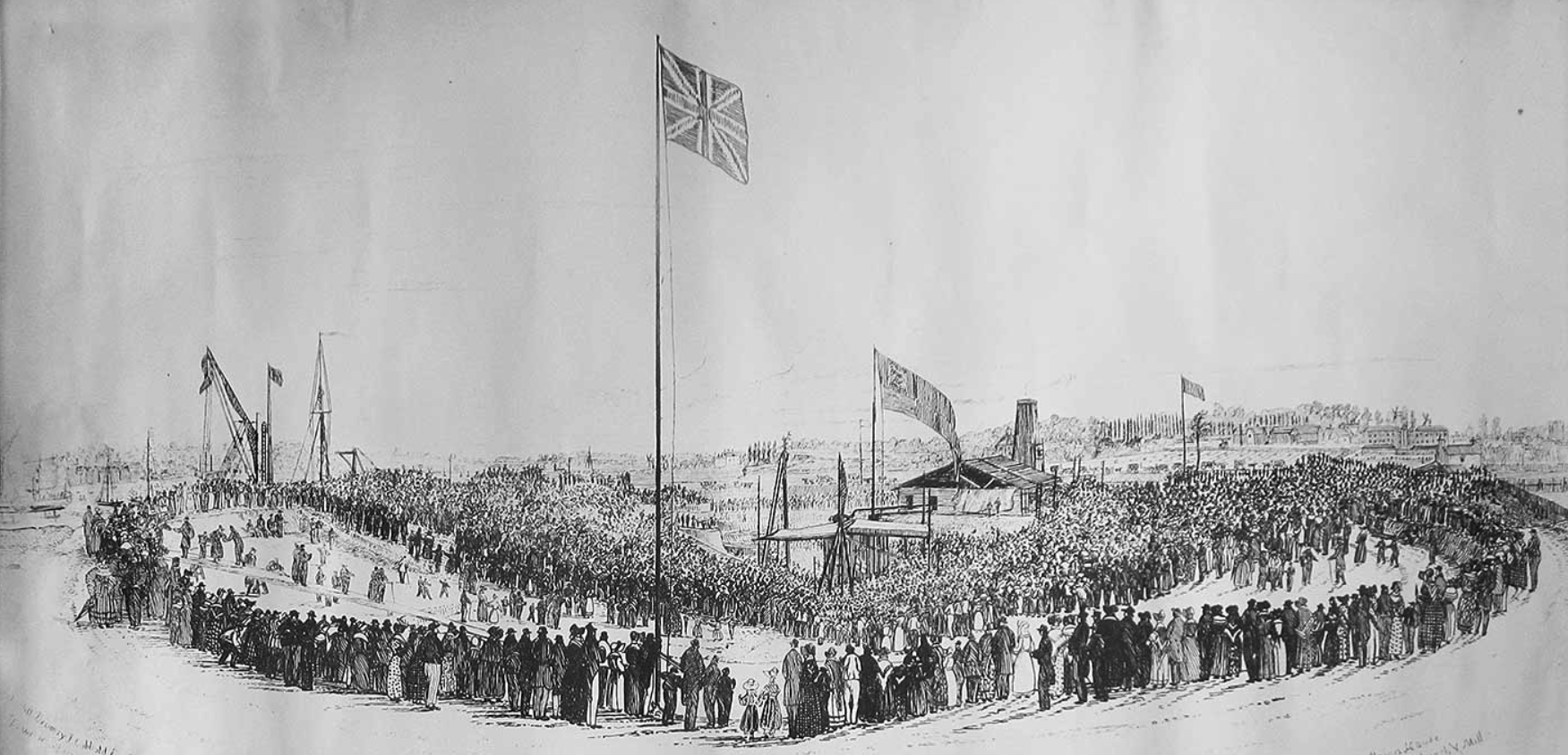 A crowd gathered arond dignitaries and large flagpole sporting the Union Jack